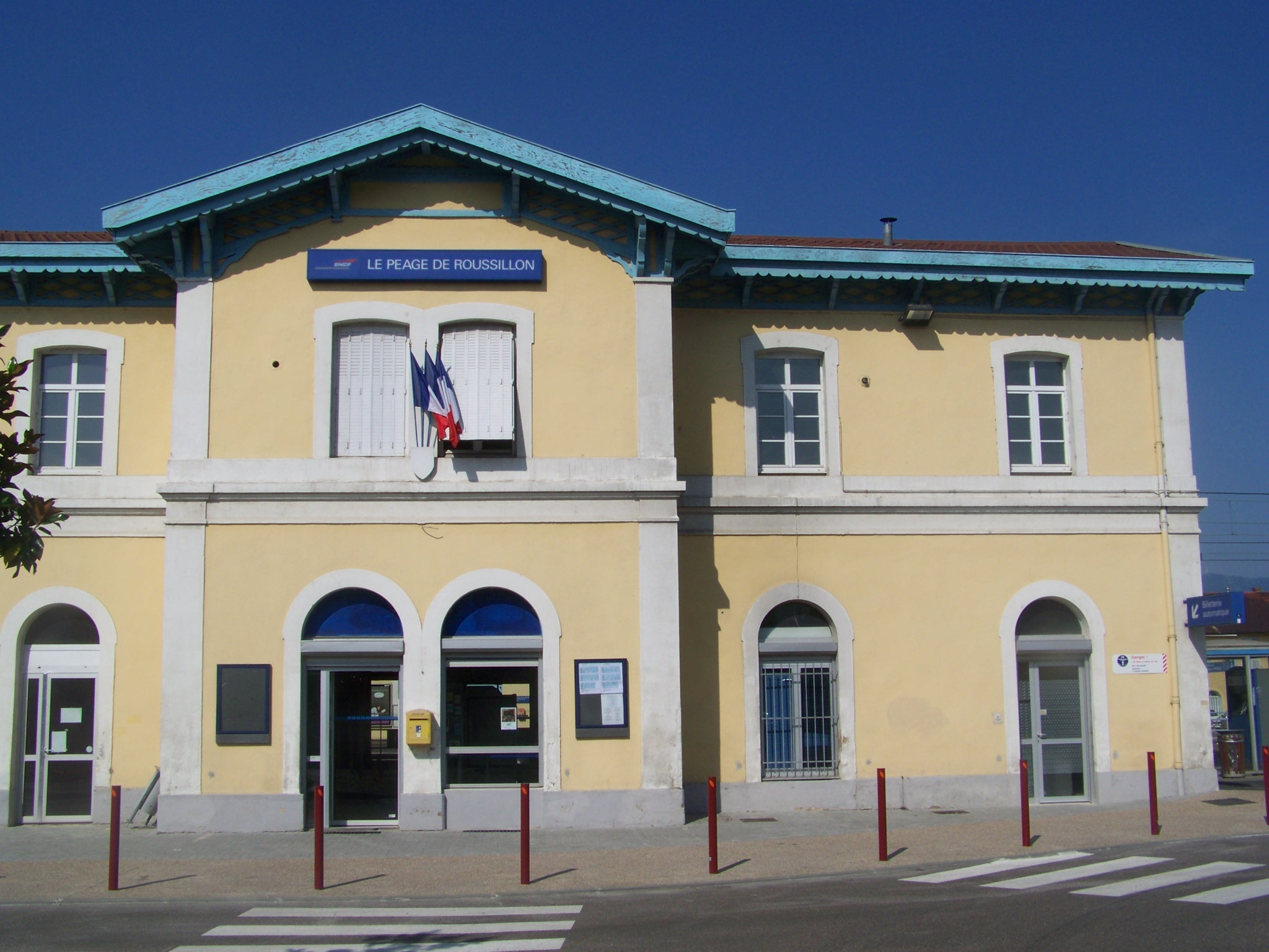 View of the facade of the city of Péage de Roussillon railway station, in Isère, France.